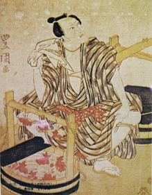 A wood goldfish peddler in the era of the Samurai (print)